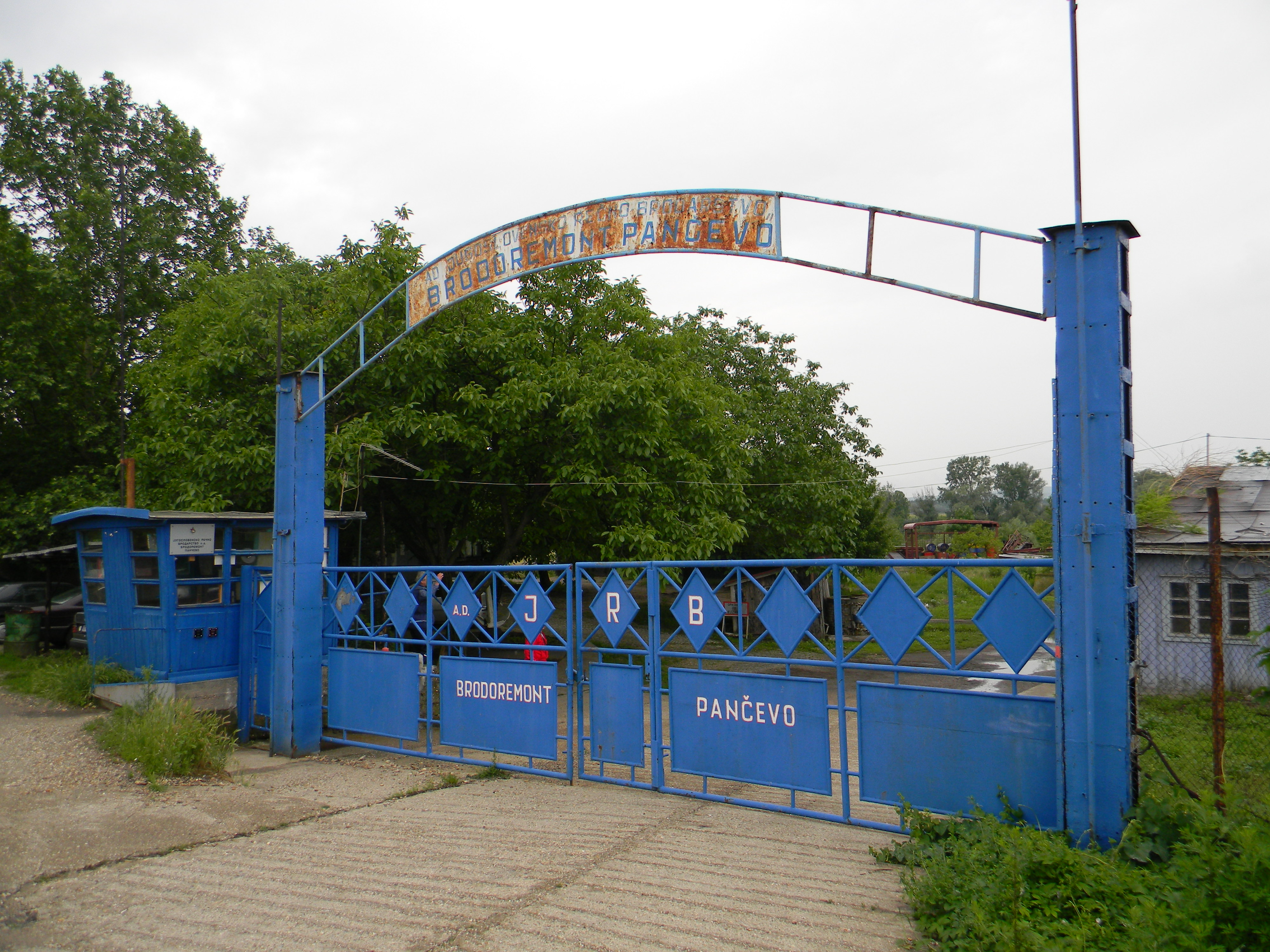 Shipyard on Tamiš river in Pančevo, entrance